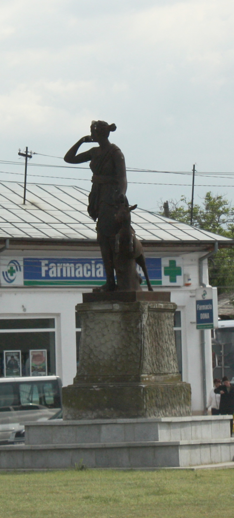 statue of the Diana Greek godess in the town of Giurgiu